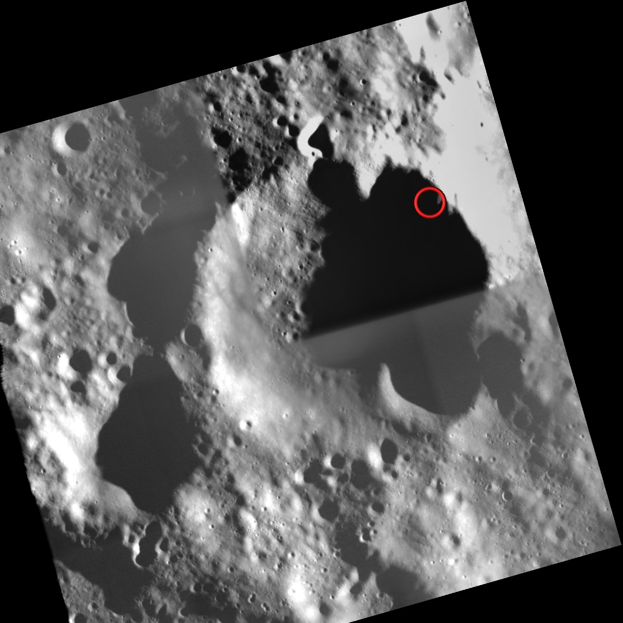 This SMART-1 image shows the Kaguya impact site based on the most updated estimate of the impact which occurred on 10 June 2009 at 20:25 CEST at 80.4°E, 65.5°S. The image was taken on 31 January 2006 from a distance of 750 km with a field of view of 70 km. North is at the top in this view. The Kaguya orbiter sheared over the lunar surface, coming into this view from the south. An elevated crater rim is visible in the way of the satellite. The crater rim affects the angle of incidence, the impact flash and the dynamics of the ejected matter.